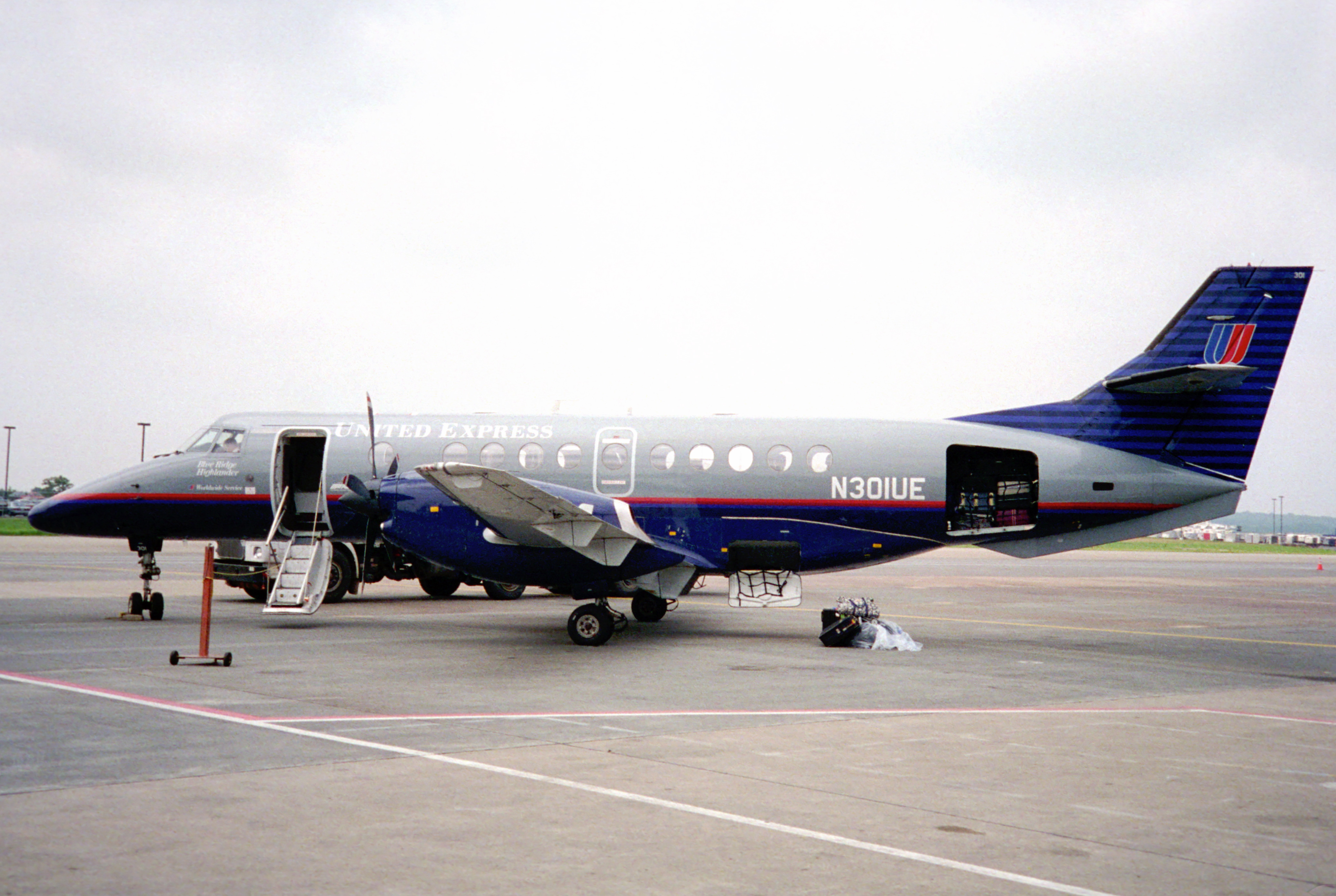 Our ride for JFK - IAD that day...